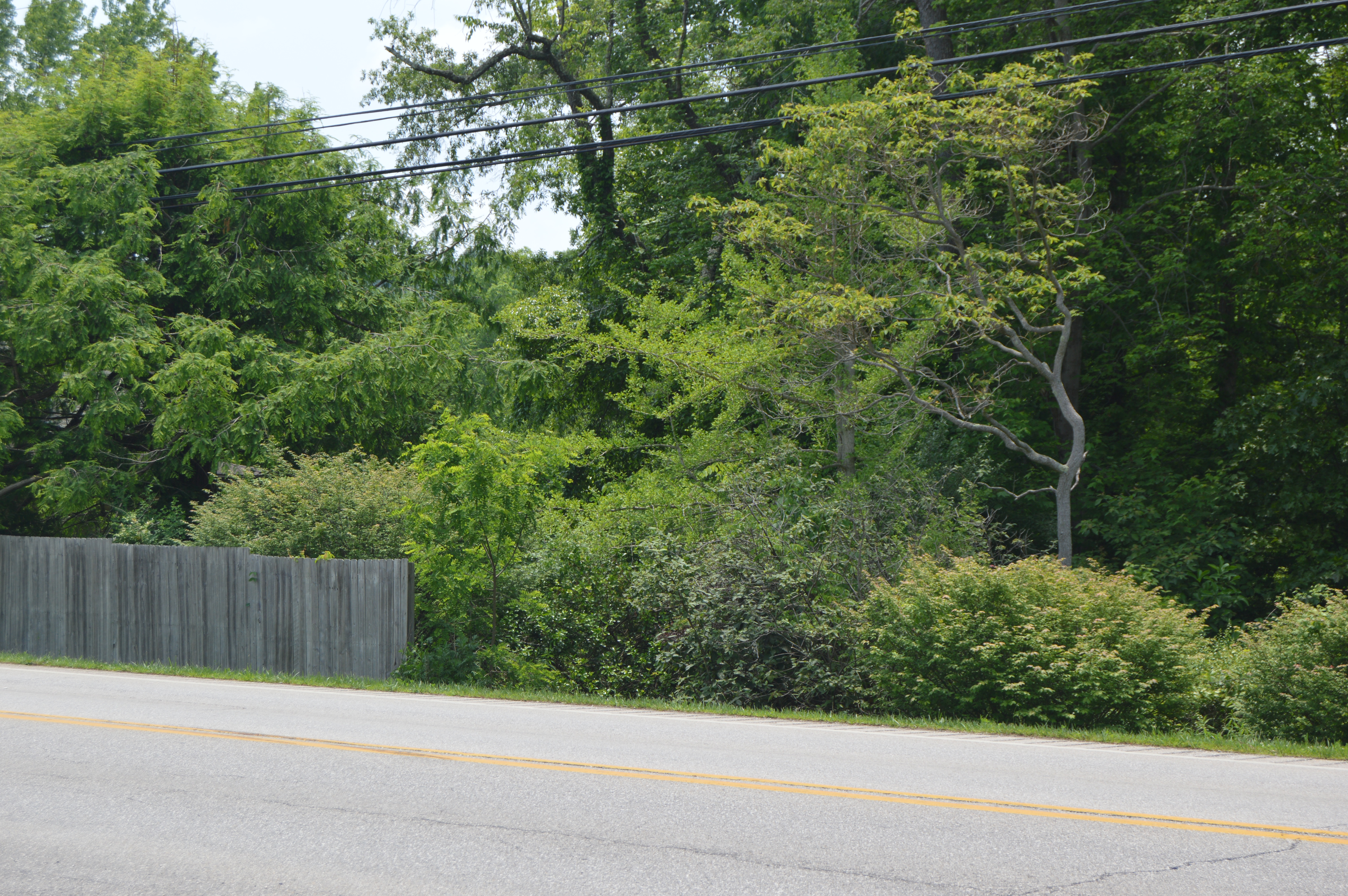 Site of the Brushy Voting House No. 6, located along the southern side of Kentucky Route 32 at the Spruce Street intersection northwest of Morehead in Rowan County, Kentucky, United States. Built in 1935, it was listed on the National Register of Historic Places in 1998, and although it has been destroyed, it has not yet been removed from the Register.